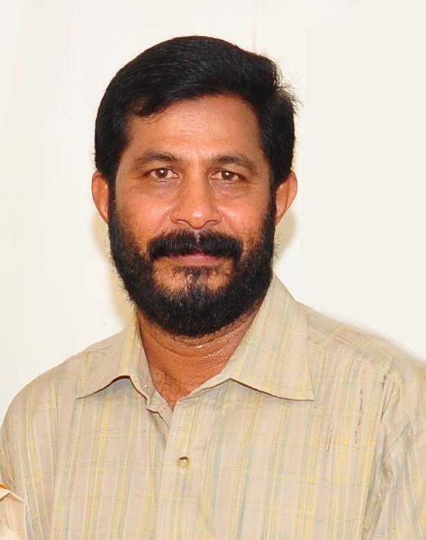 Kerala State Library Council president